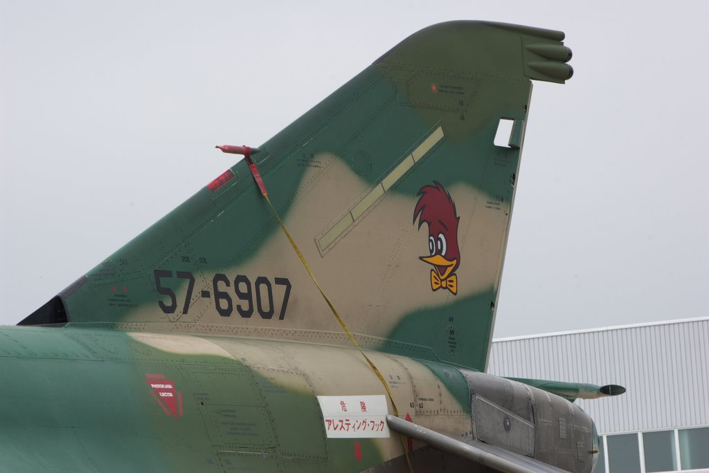 RF-4E of JASDF 501 squadron at Chitose Airbase.